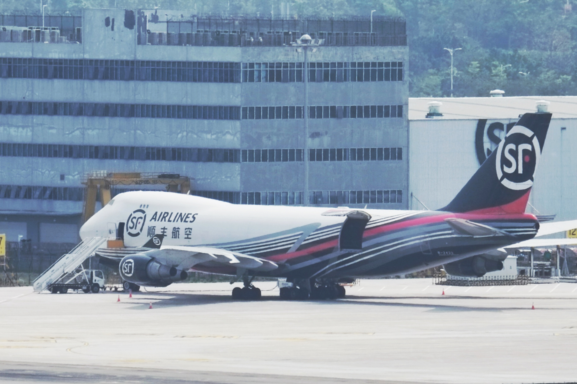 SF Airlines B-2422, Boeing 747-400ERF